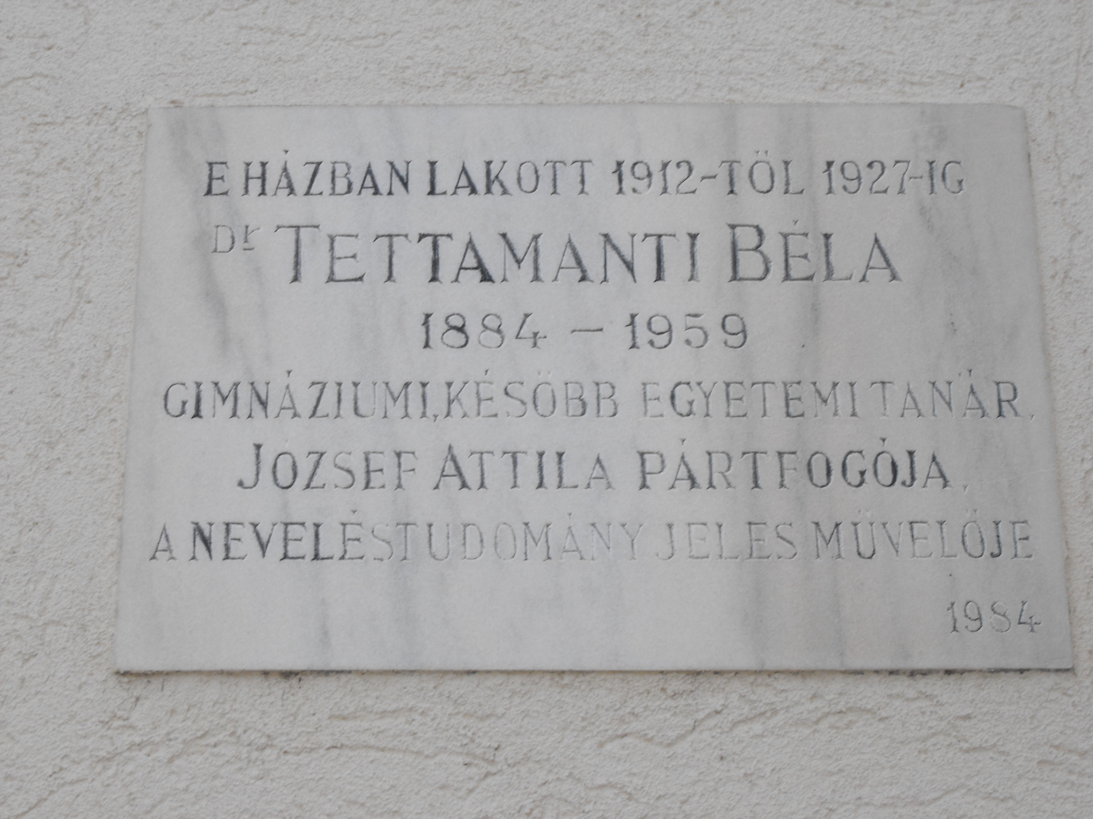 Memorial tablet of Béla Tettamanti, teacher in Makó, Hungary.